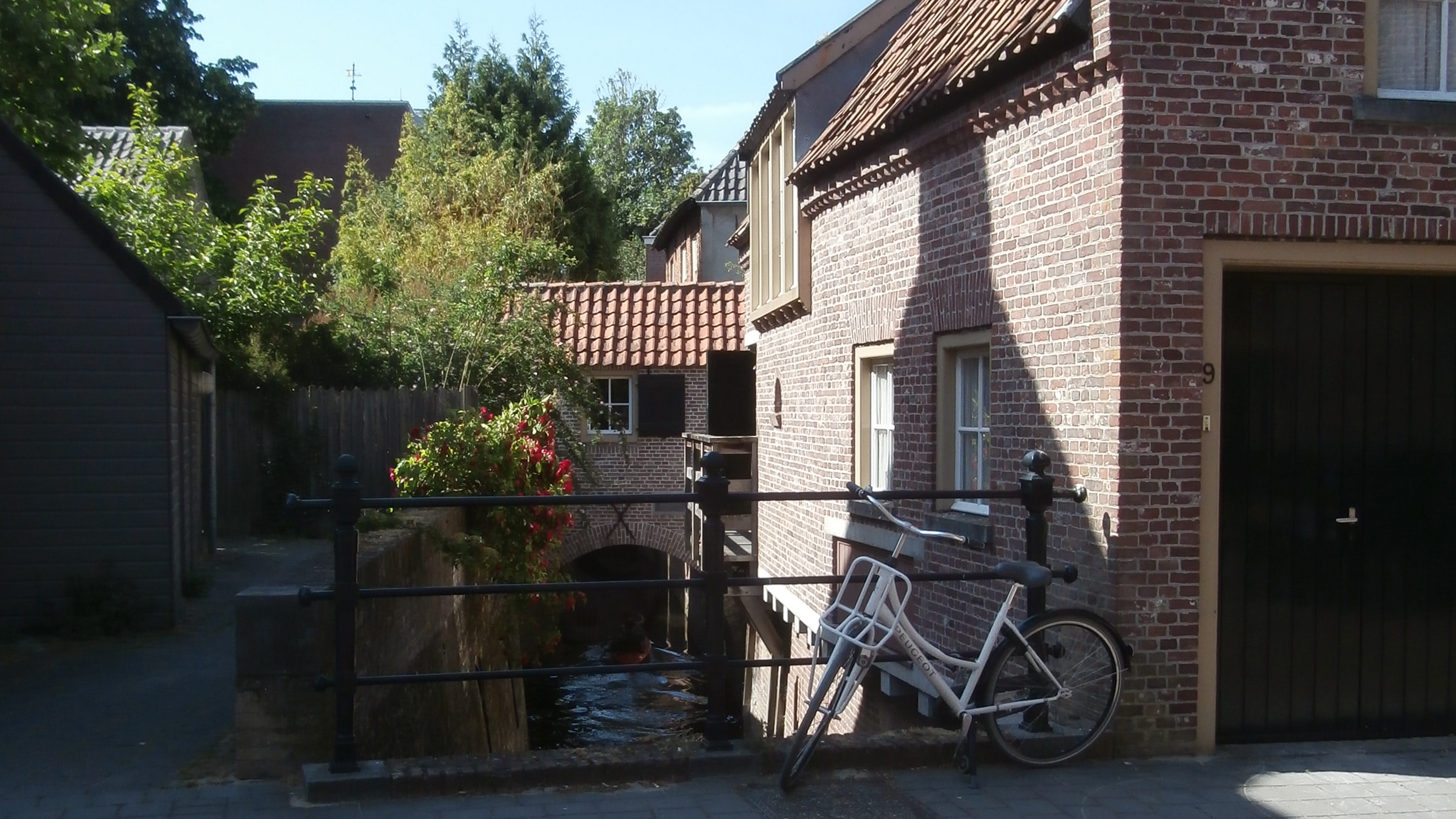 Verwerstroom seen from the Beurdsestraat bridge towards the north.